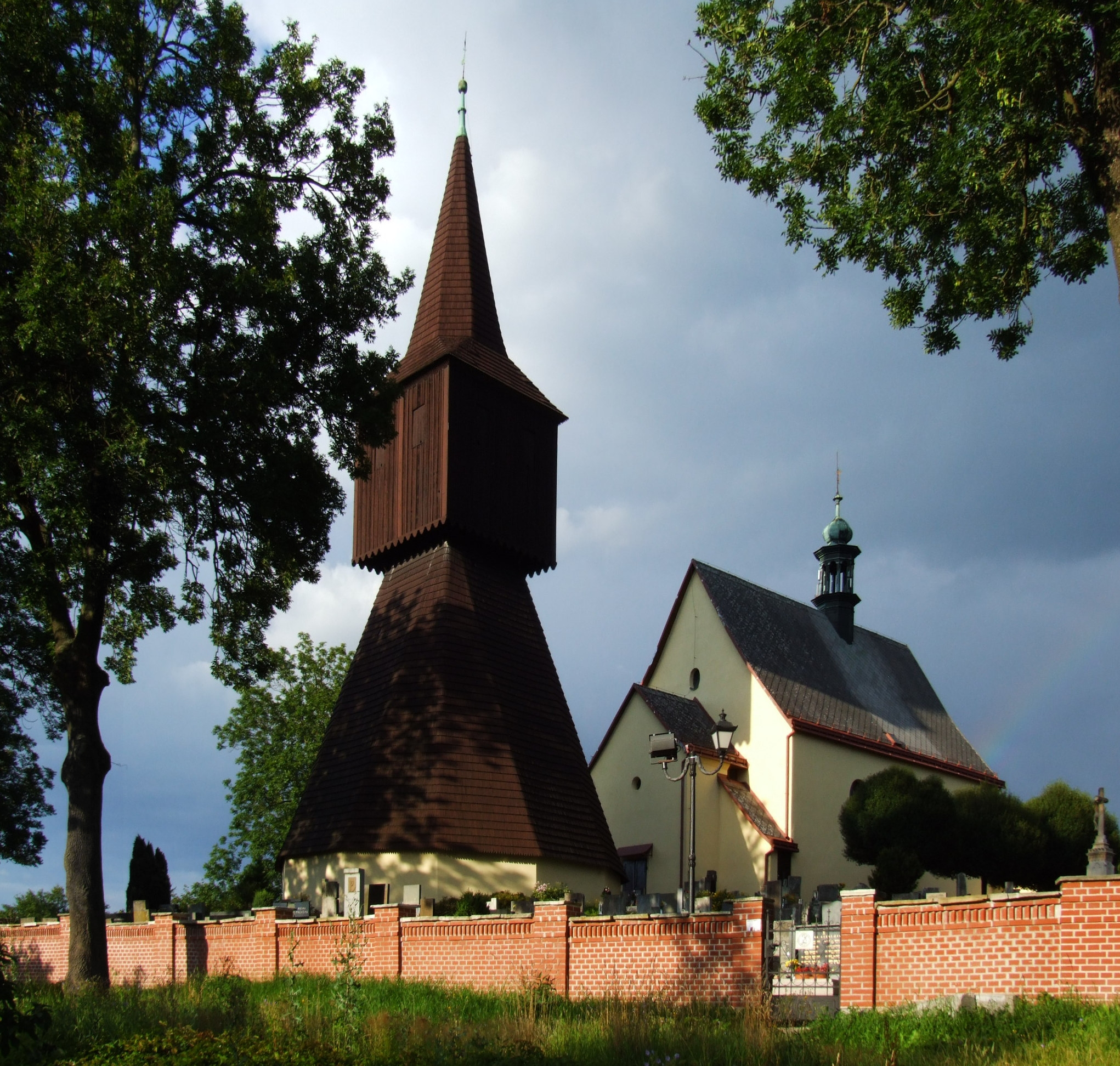 Rtyně v Podkrkonoší, Trutnov District, Czech Republic.